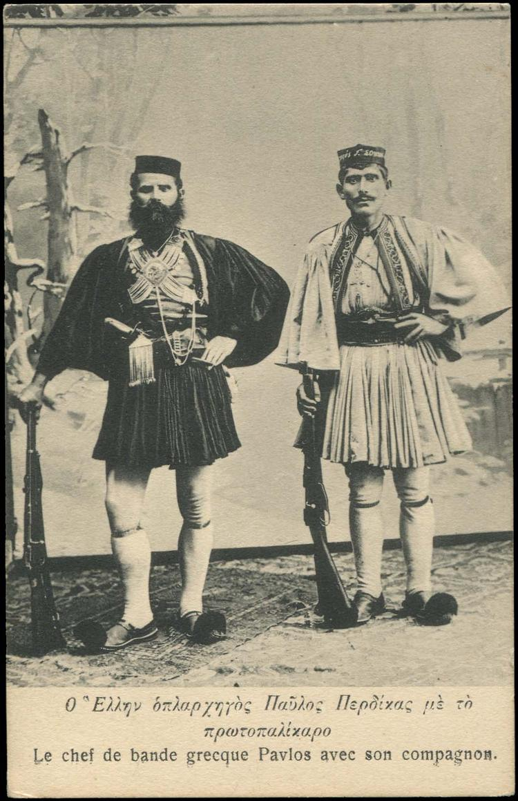 Pavlos Perdikas and other andart